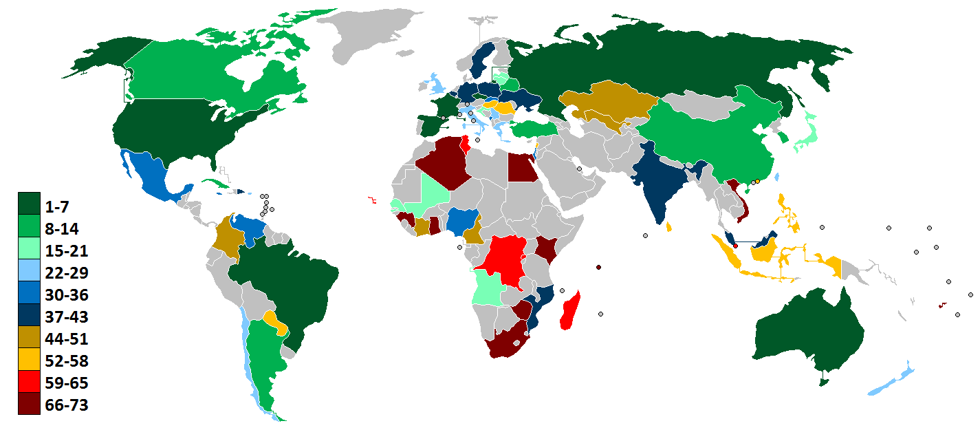 Map of FIBA World Ranking for women